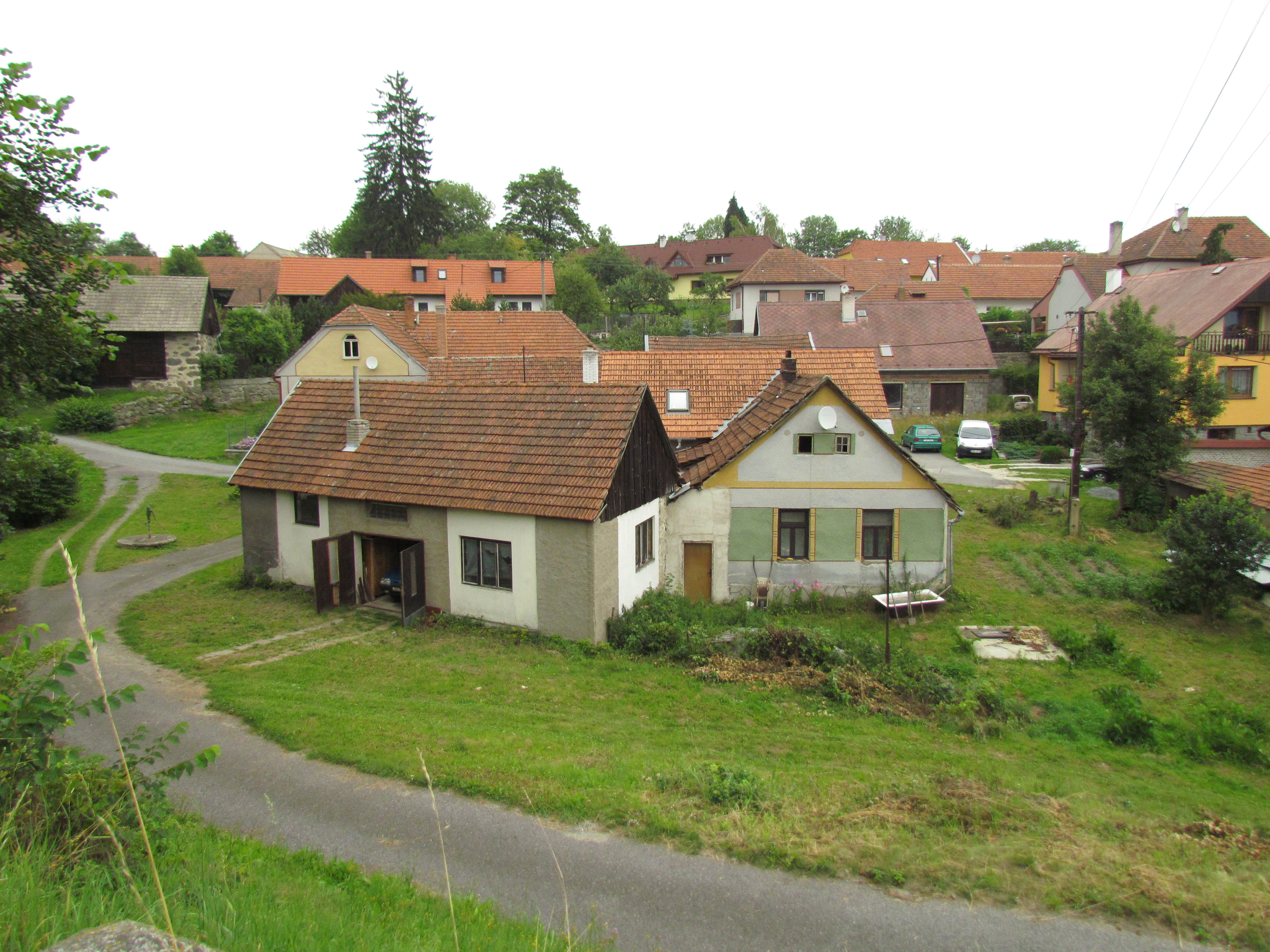 Center part of Rohy, Třebíč District.